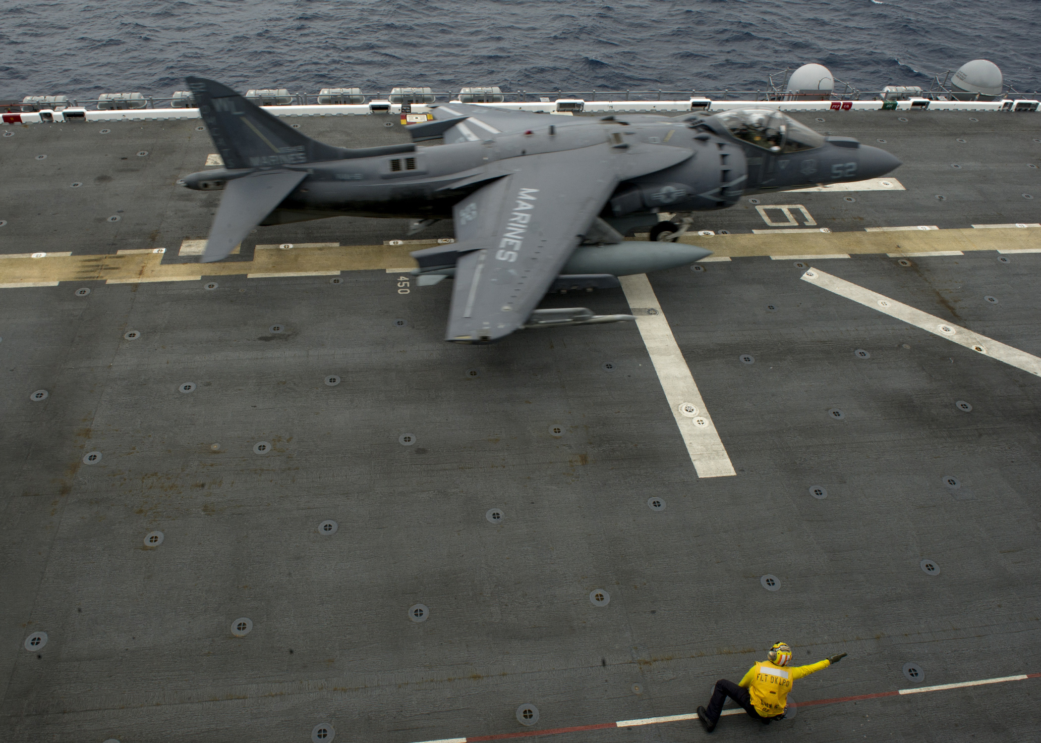 150222-N-AC979-219 PACIFIC OCEAN (Feb. 22, 2015) – Aviation Boatswain’s Mate (Handler) Kenny Vida, assigned to amphibious assault ship USS America (LHA 6), gives the launch signal to an AV-8B Harrier pilot assigned to Marine Attack Squadron (VMA) 311. America is currently conducting Harrier operations for the first time off the coast of California. The ship is the first of its class and is optimized for Marine Corps aviation. (U.S. Navy photo by Mass Communication Specialist 1st Class Michael McNabb/Released)